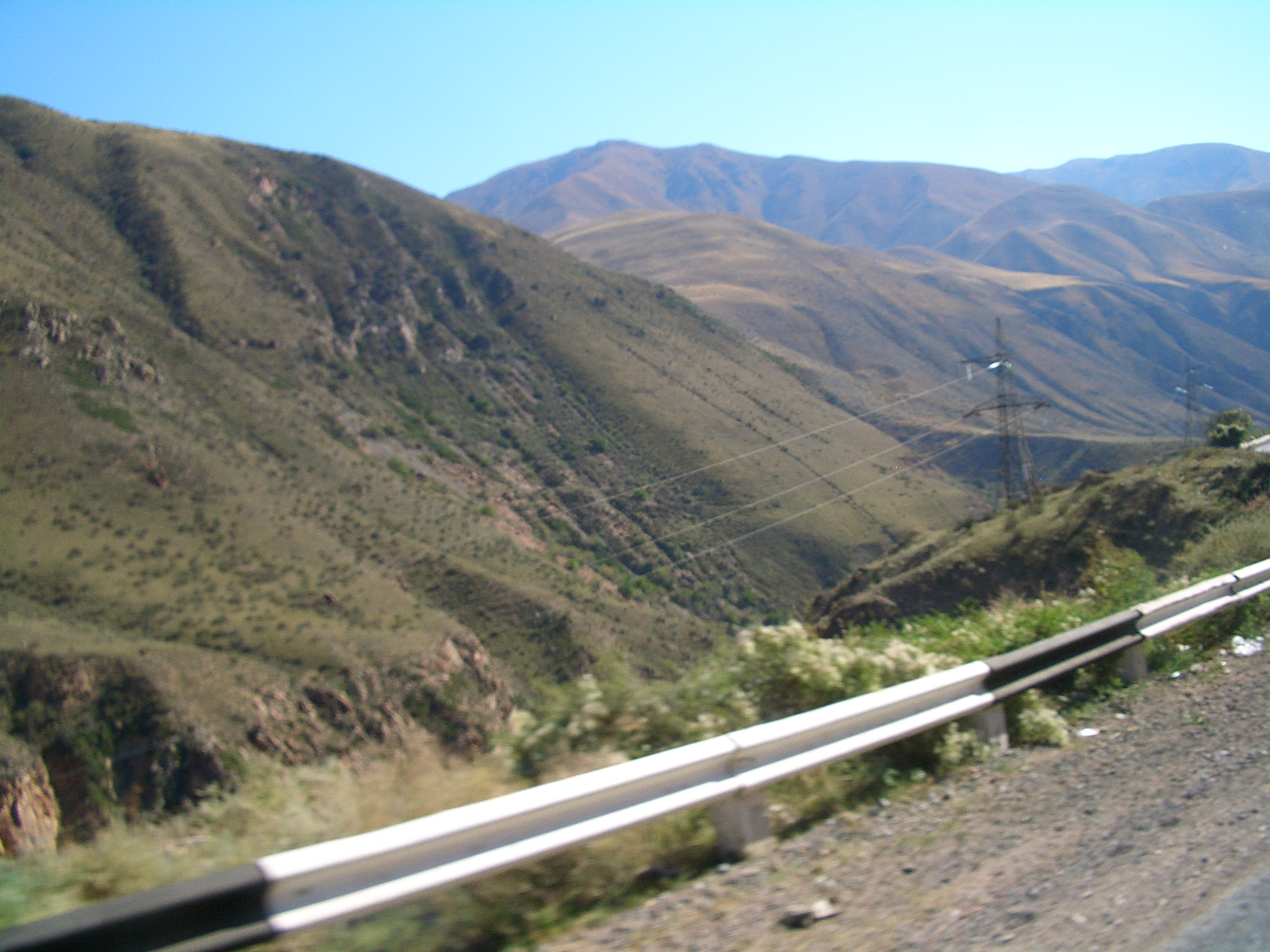 Mountains along the side of Boom Gorge.